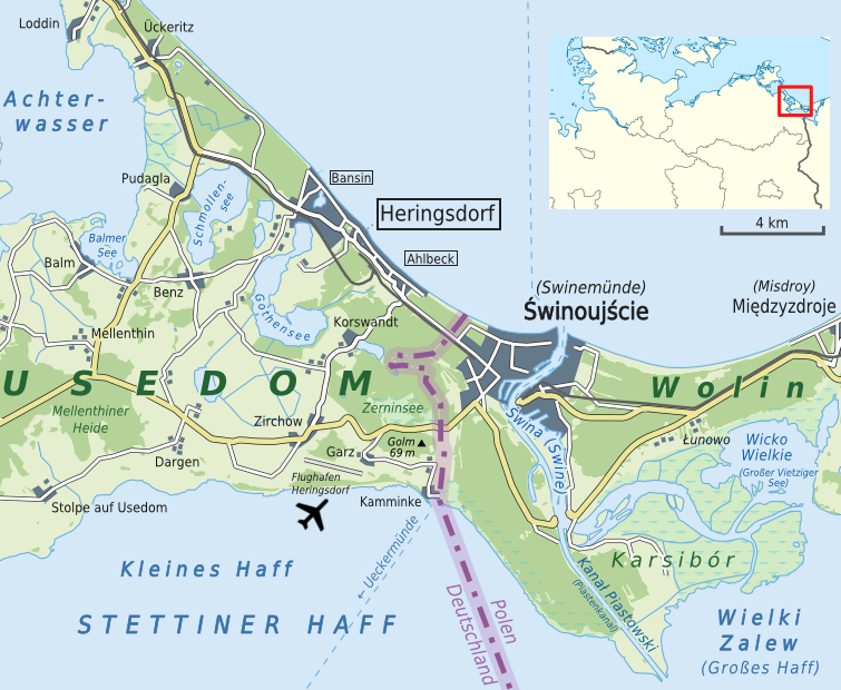 Map of Usedom Island focussing Heringsdorf and its seaside districts of Ahlbeck and Bansin and the neighbouring Swinemünde/Świnoujście (Poland).